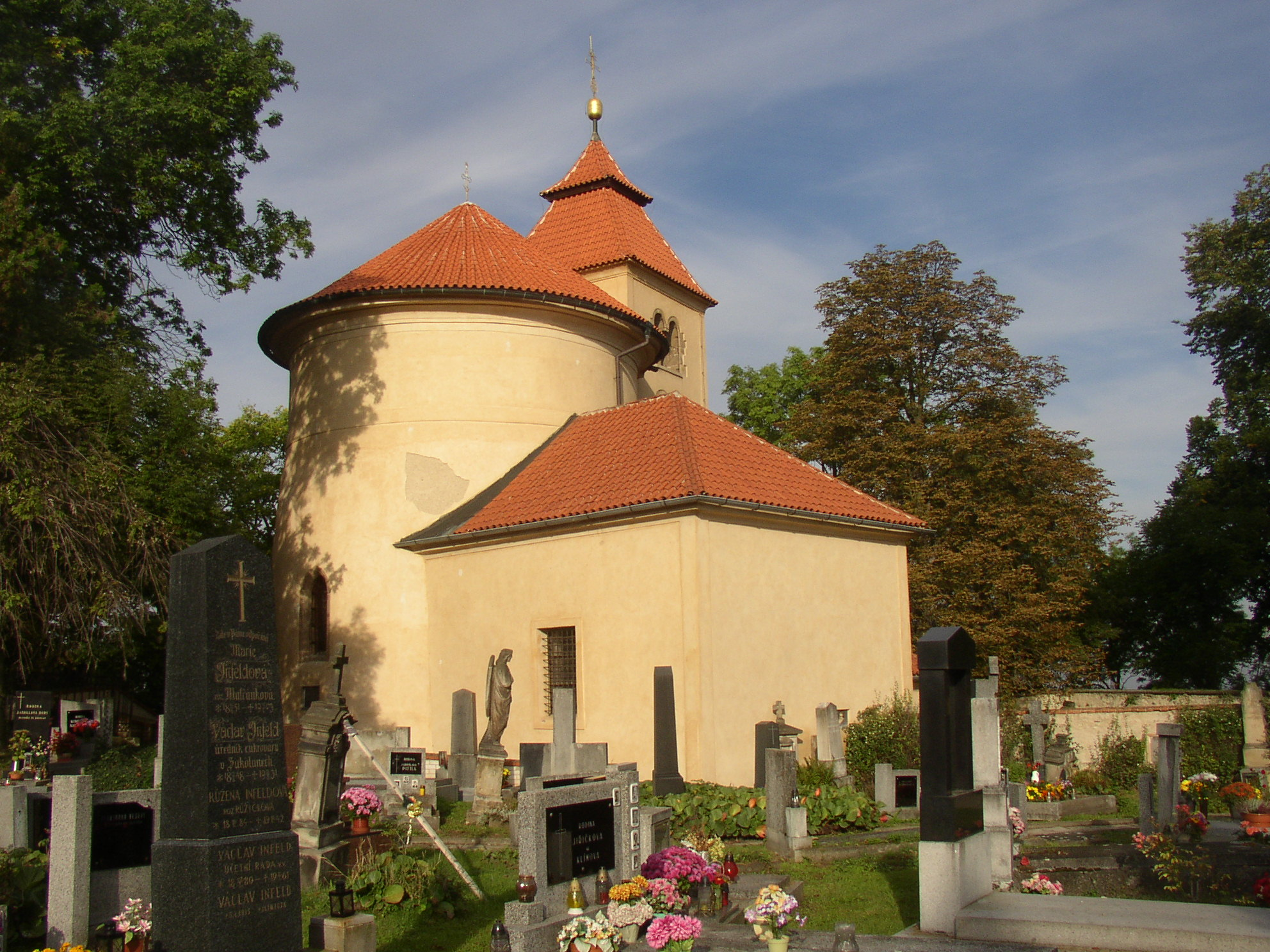 Church of SS Peter and Paul at Budeč near Zákolany. The rotunda built around 900 CE with tower added in late 12th century is the oldest preserved building in the Czech Republic.